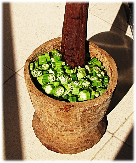 Cut okra for Soupou Kandja/kanje (okra stew) This is an image of food from Senegal